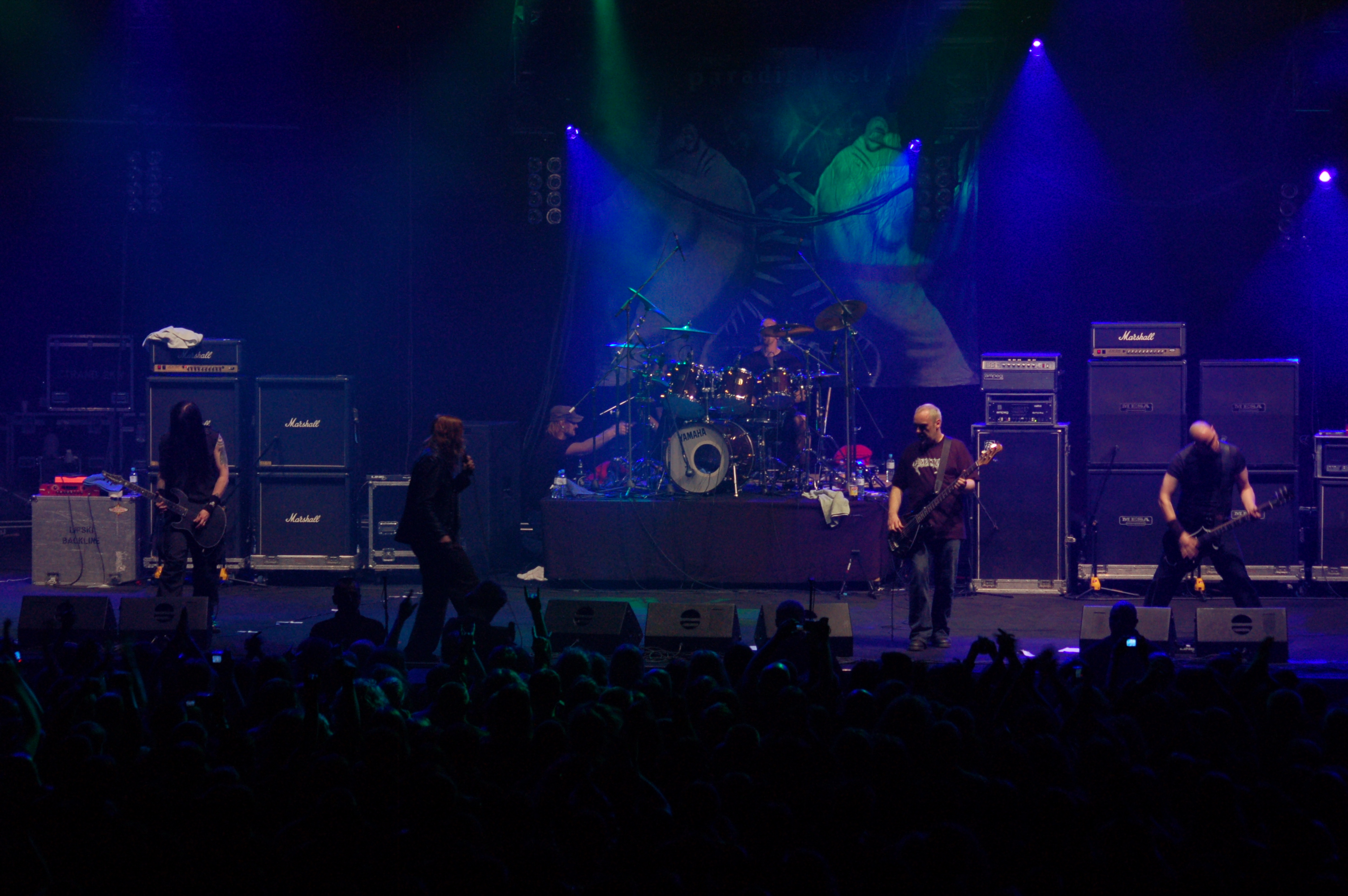 Metal band Paradise Lost during Metalmania 2007 festival